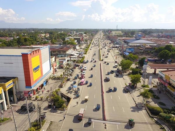 Aerial view of Tacurong City